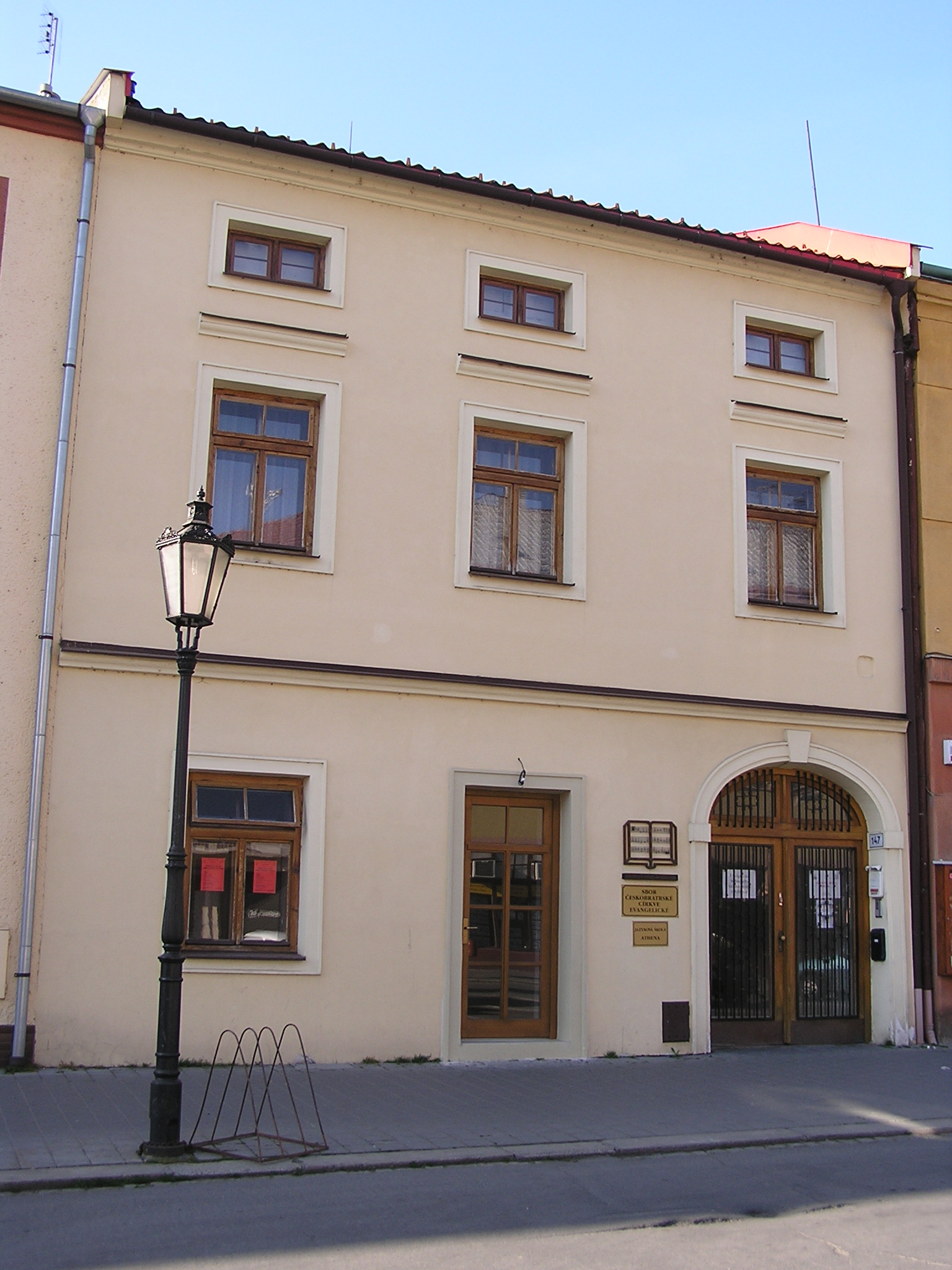 Protestant church in Kroměříž, Czech Republic